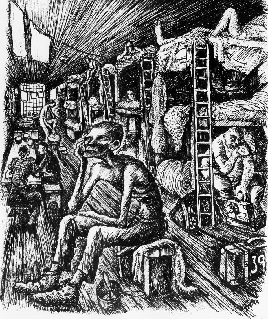 Drawing from the Theresienstadt ghetto